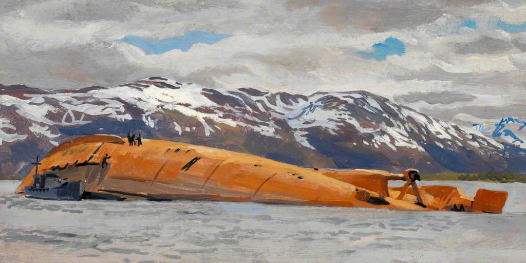 Bone, Stephen; The Wreck of the 'Tirpitz', June 1945; IWM (Imperial War Museums)